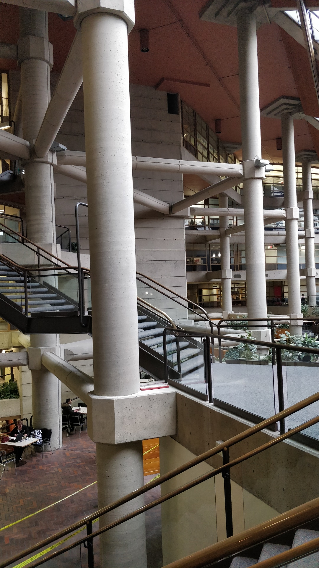 interior of 4900 Yonge Street Government of Canada Building, North York